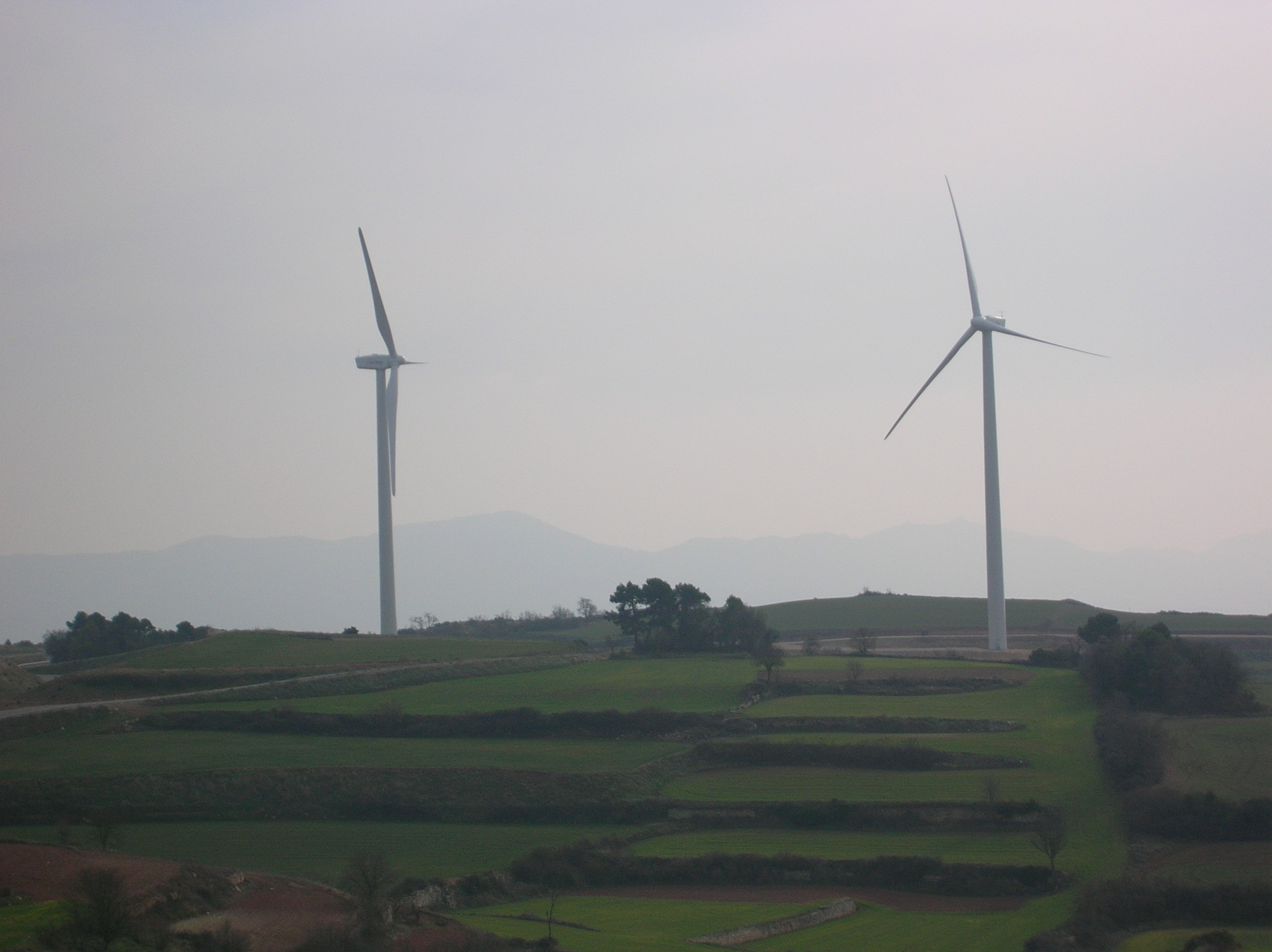 Wind Farm in Serra del Tallat, around the villages of "Passanant i Belltall - Vallbona de les Monges" in Catalonia.